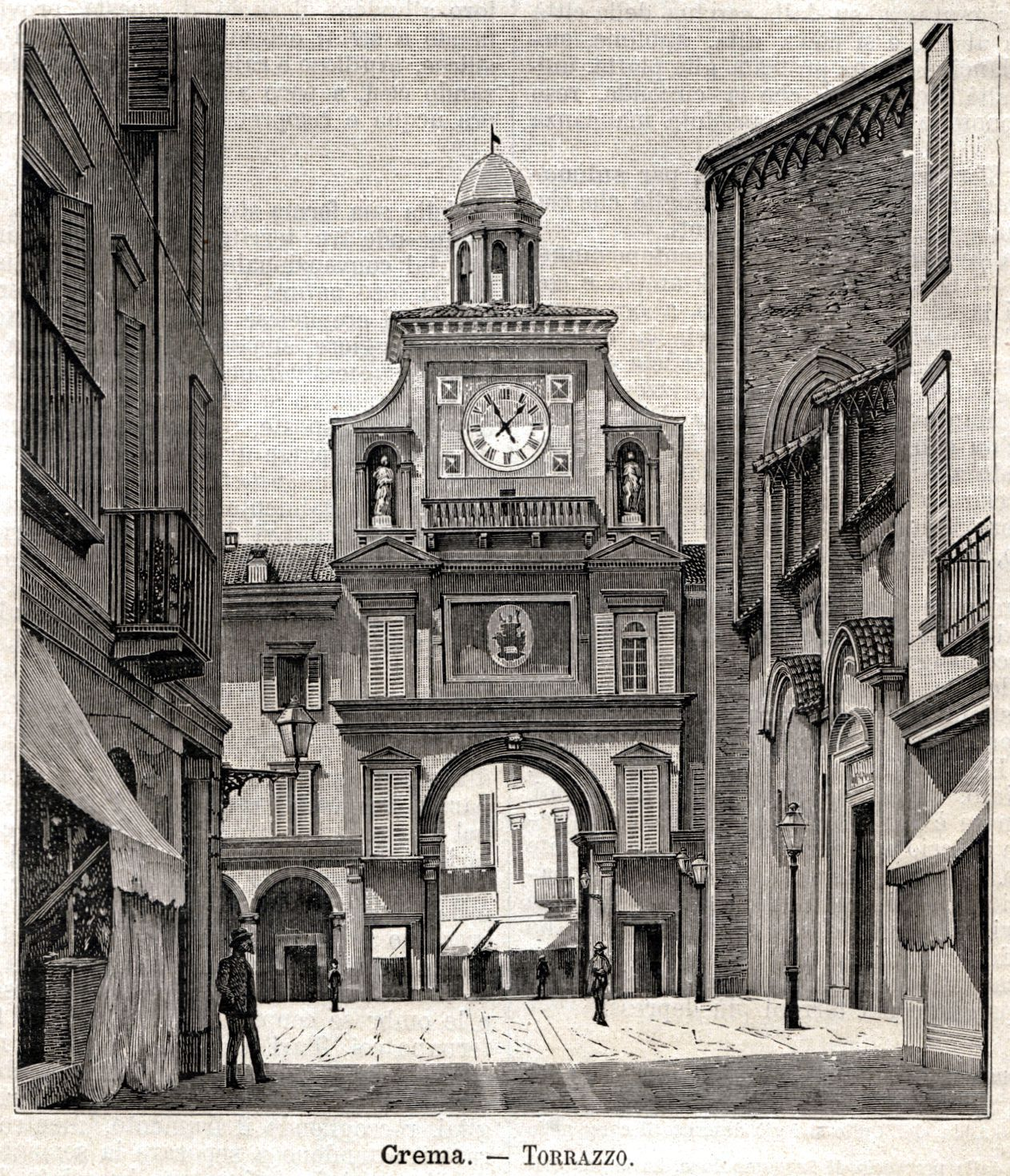 Historical view of the city gate called Torrazzo in Crema (Italy). Taken from "Le cento città d'Italia", illustrated monthly supplement of the "Il Secolo", Sonzogno Publisher, Thursday, April 30, 1896